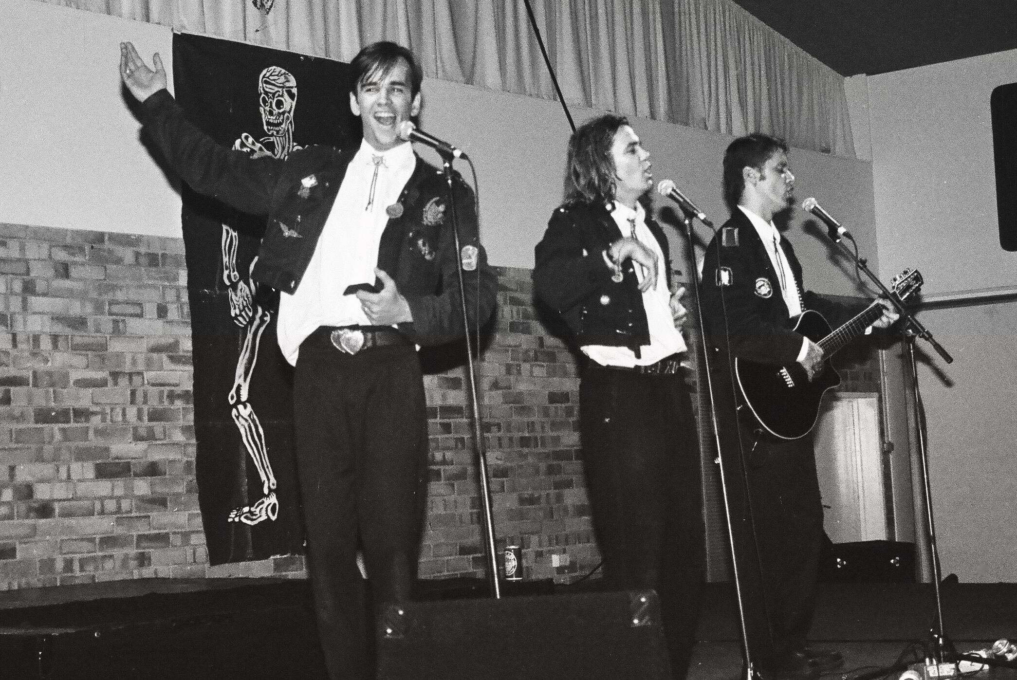 Australian comedy trio the Doug Anthony All Stars (DAAS) in concert at the University of Tasmania Activities Centre, 14 April 1994. From left: Tim Ferguson, Paul McDermott, Richard Fidler.